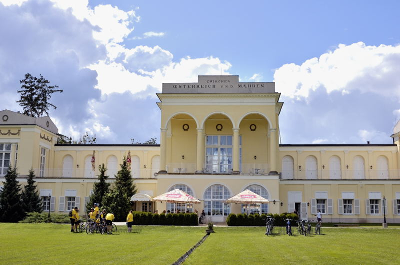 The Border Castle in Hlohovec, a village in Břeclav District, Czech Republic.